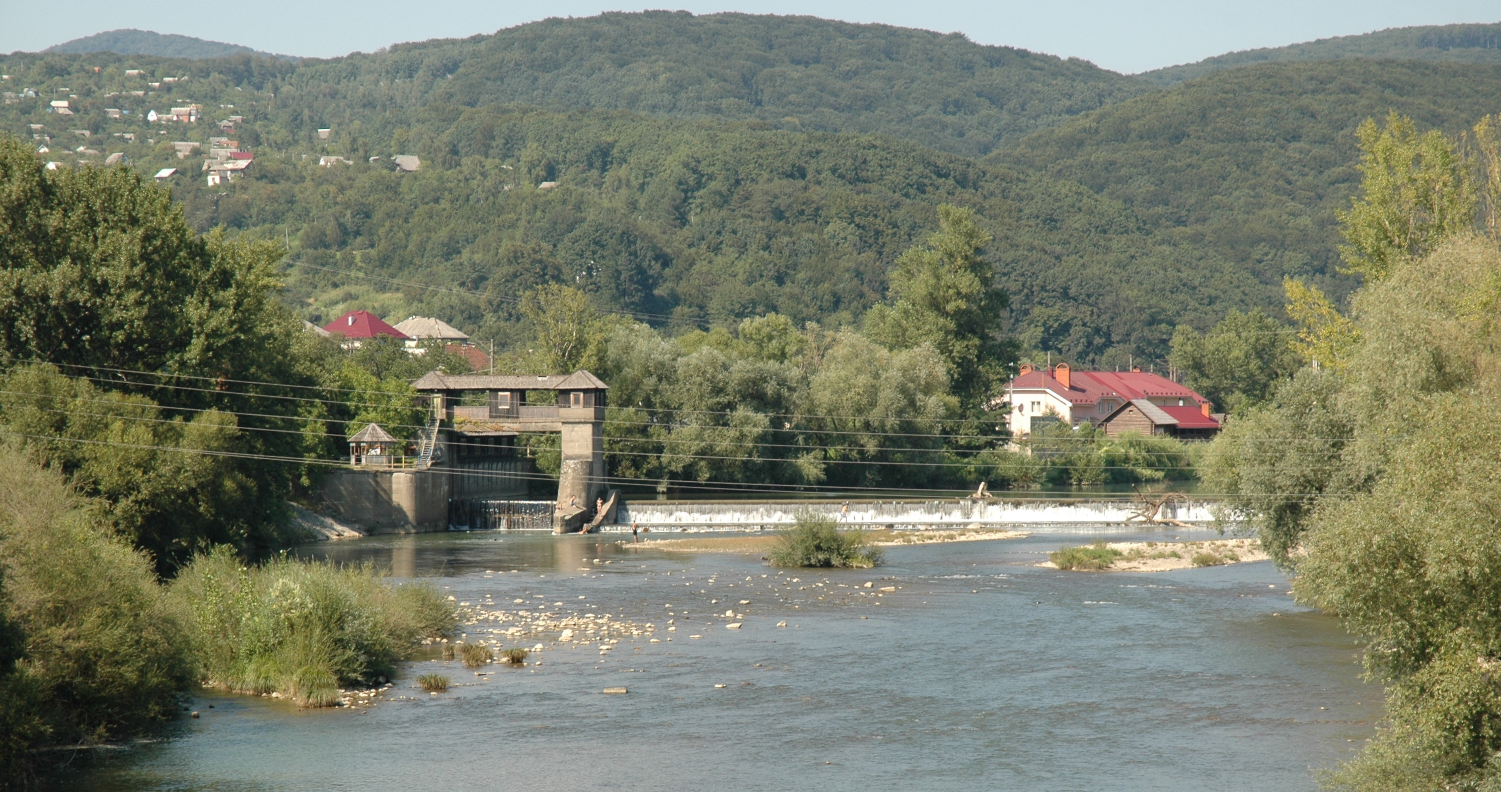 Dam on the Uzh river near Kamyanytsya (Transcarpathian region, Ukraine)